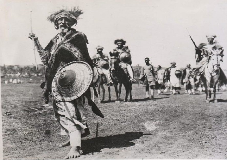 Ethiopian soldiers at the Battle of Adwa in 1896